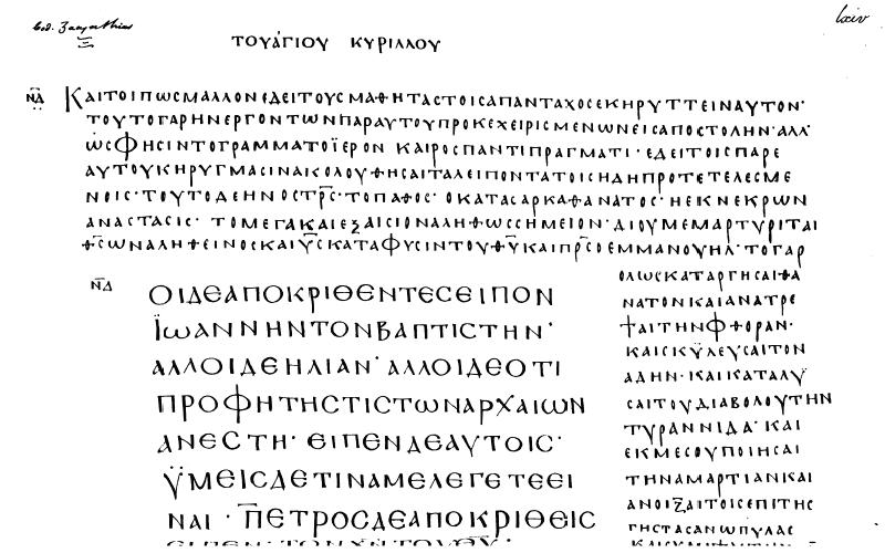 fragment of text from Codex Zacynthios (Gospel of Luke) in facsimile edition from 1861; edited by Tregelles